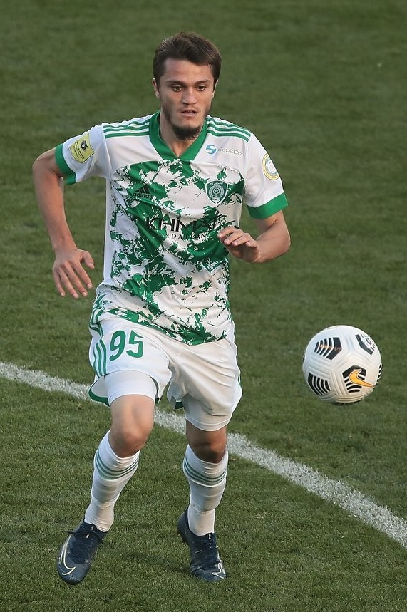 Abubakar Kadyrov with FC Akhmat Grozny in a game against FC Khimki.